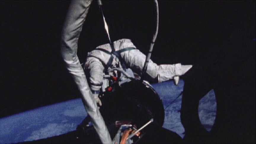 Astronaut Buzz Aldrin, during his Gemini XII mission EVA, hovering over the Gemini capsule and the Agena target vehicle. Aldrin prepared for this EVA by participating in neutral buoyancy submersion training.